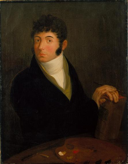 Self-portrait of José Teixeira Barreto, early 19th century. In the collection of Soares dos Reis National Museum, Porto, Portugal.